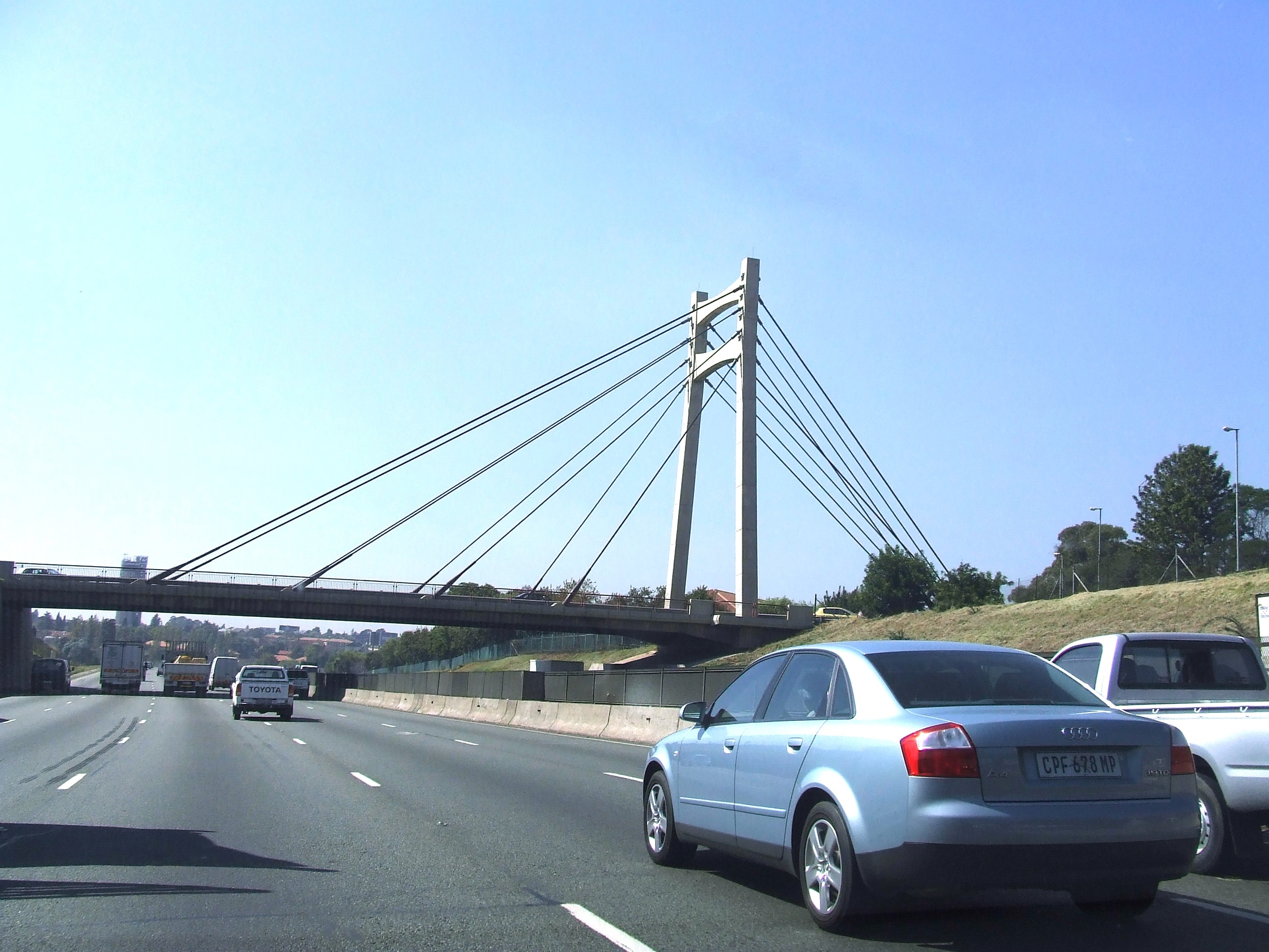 Between Bedfordview Interchange and airport